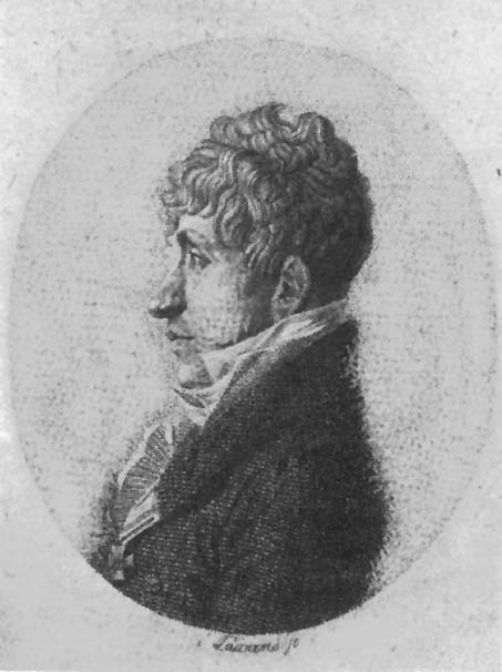 Johann Centurius Hoffmann Graf von Hoffmannsegg (August 23, 1766 – December 13, 1849) was a German botanist, entomologist and ornithologist.